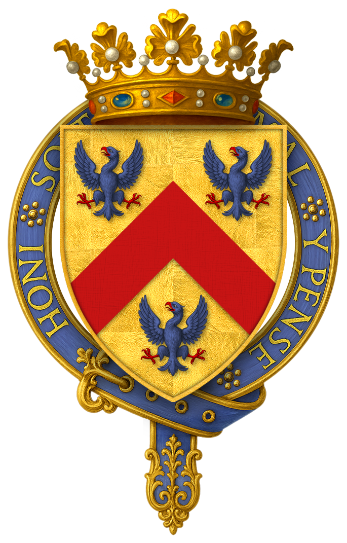 Quartered arms of Henri de la Trémoille, Prince de Taranto, KG